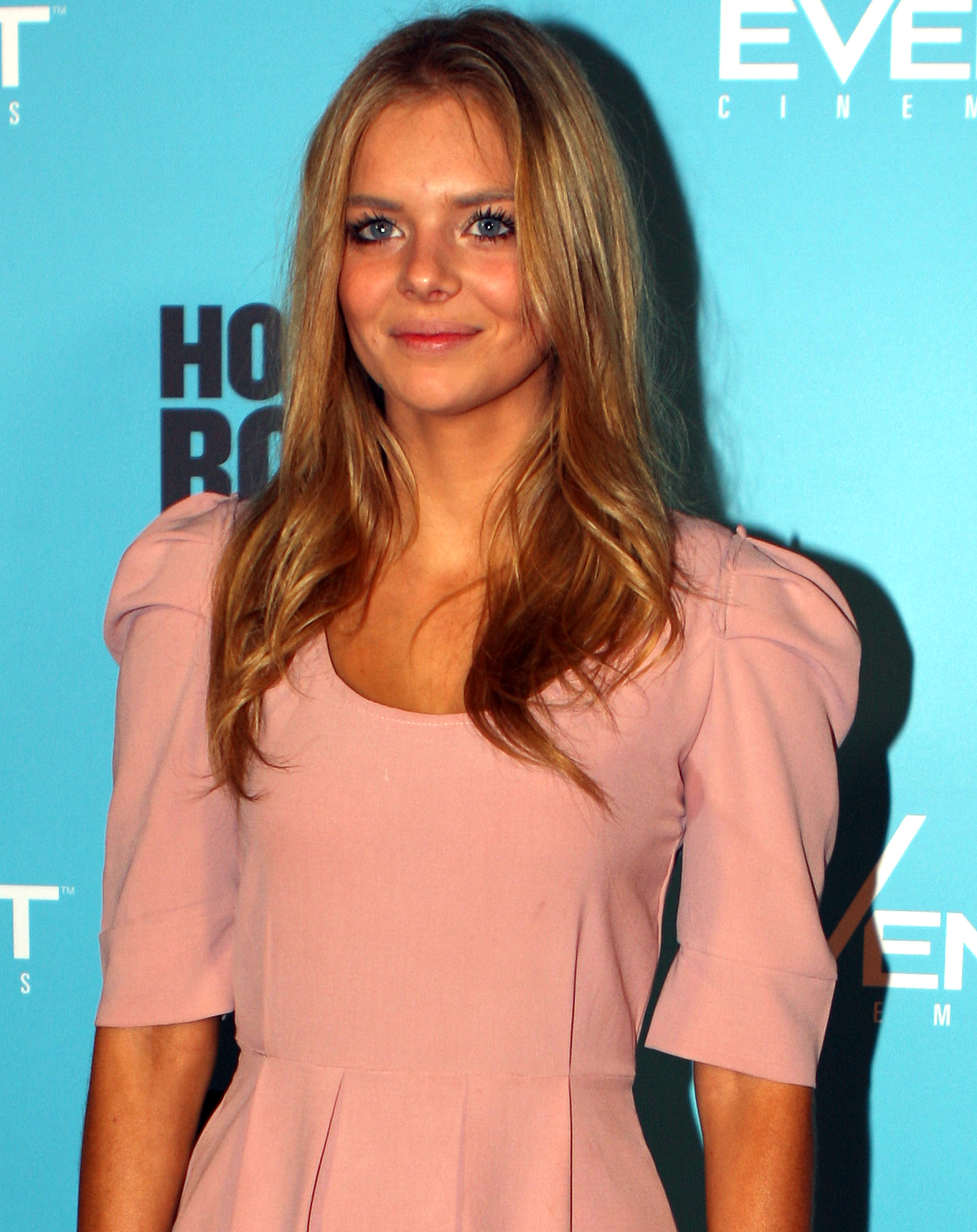 Actress Samara Weaving in August 2011 at the premiere for Horrible Bosses.